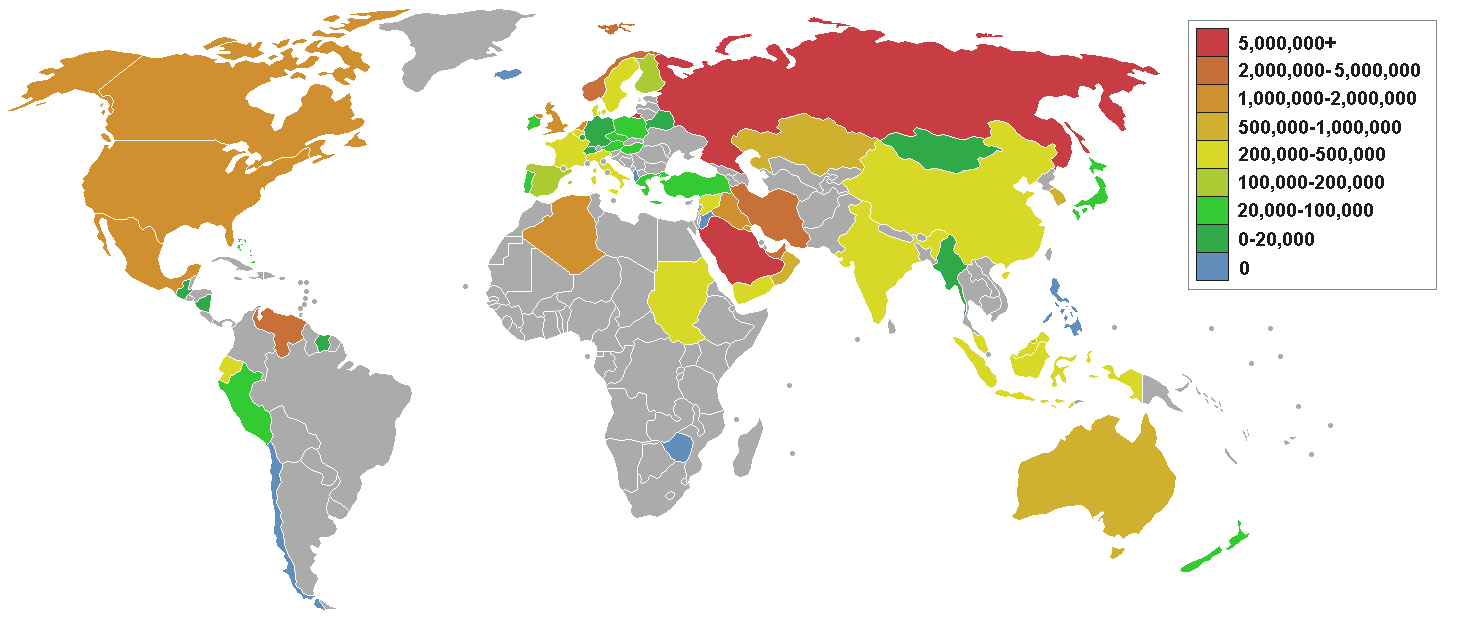 oil exports in bbl/day, as listed on the CIA factbook (CIA data is incomplete). See also Image:Oil imports.PNG.